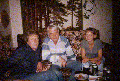 The composer and its interlocutors - authors of the book about it.